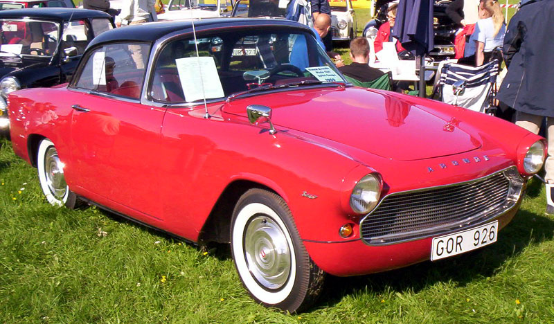 Simca Aronde Plein Ciel Sport Coupe 1959